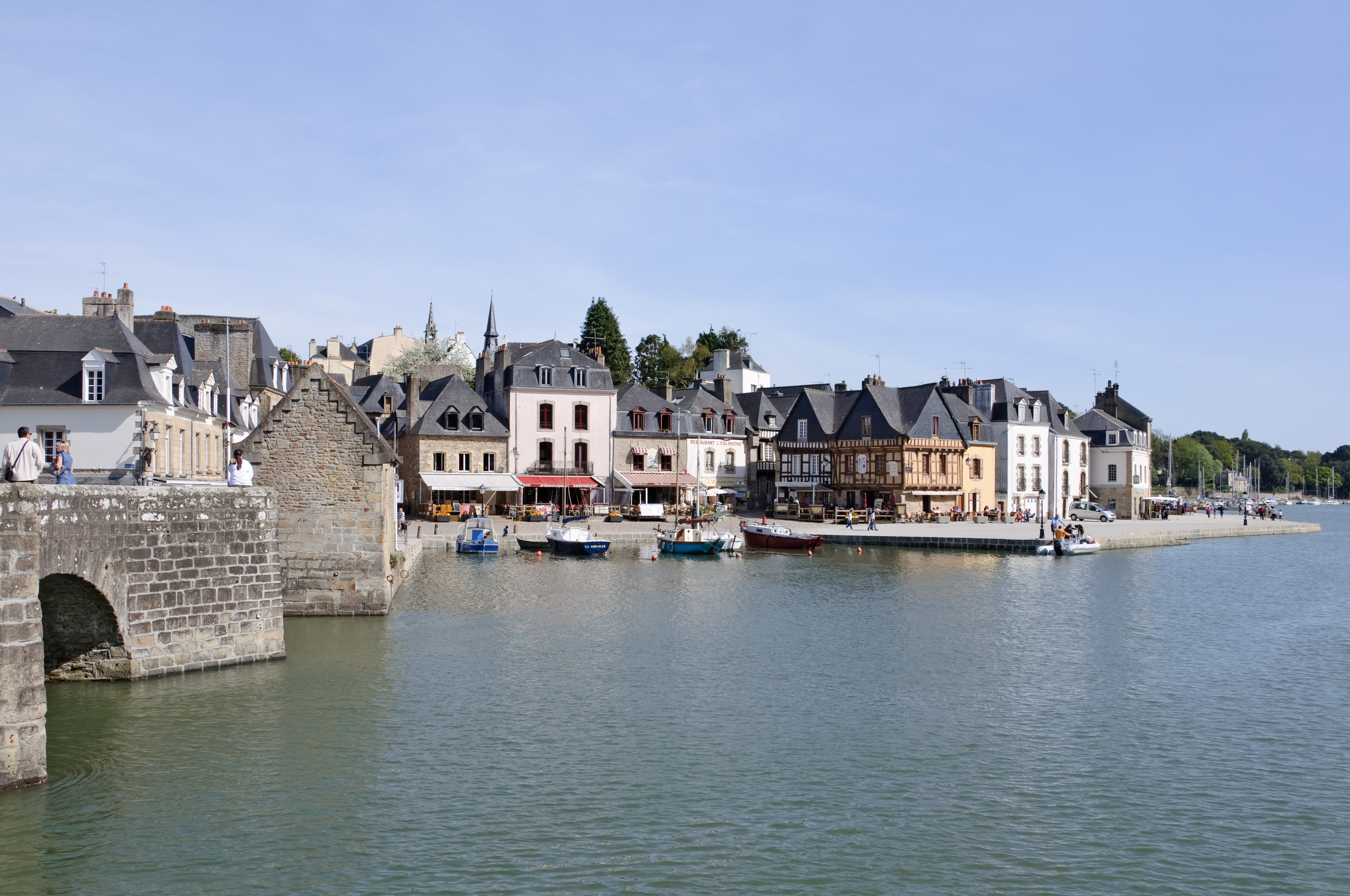 The port of Saint-Goustan in Auray (Morbihan, Brittany, France), on the left bank of Auray river (also called rivière du Loc'h), with a view on the Benjamin Franklin Wharf.